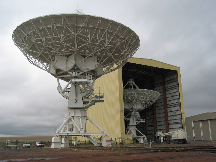 Antenna Assembly Building at the NRAO Very Large Array, 80 km west of Socorro, New Mexico, U.S.A. Tracks for moving the dish antennas are visible in the foreground. The dishes can be mounted at discrete positions and can only be moved at very calm wind conditions. Image taken by Daniel Schwen on 04 April 2004.